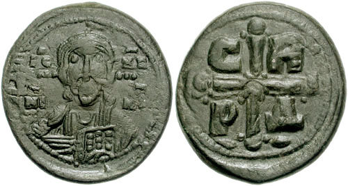 Romanus IVCoin